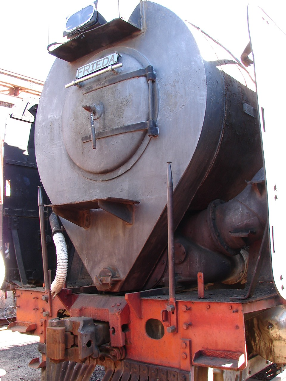 SAR Class 25 3511 (4-8-4) banjo face Builder's Number: NBL 27371 Type: Condensing Location: Beaconsfield, Kimberley, Northern Cape